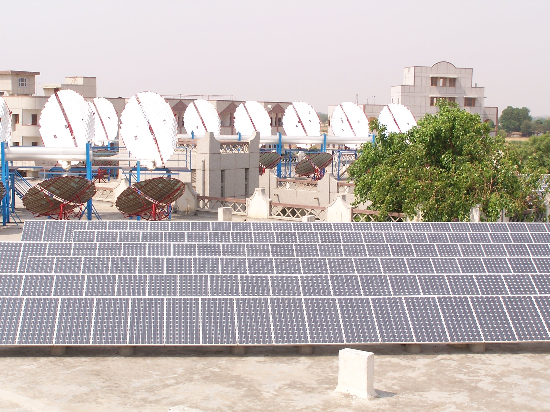 Solar power plant at Om Shanti Retreat Centre, Gurgaon